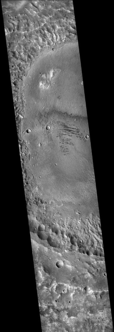 Jarry-Desloges Crater, as seen by ctx